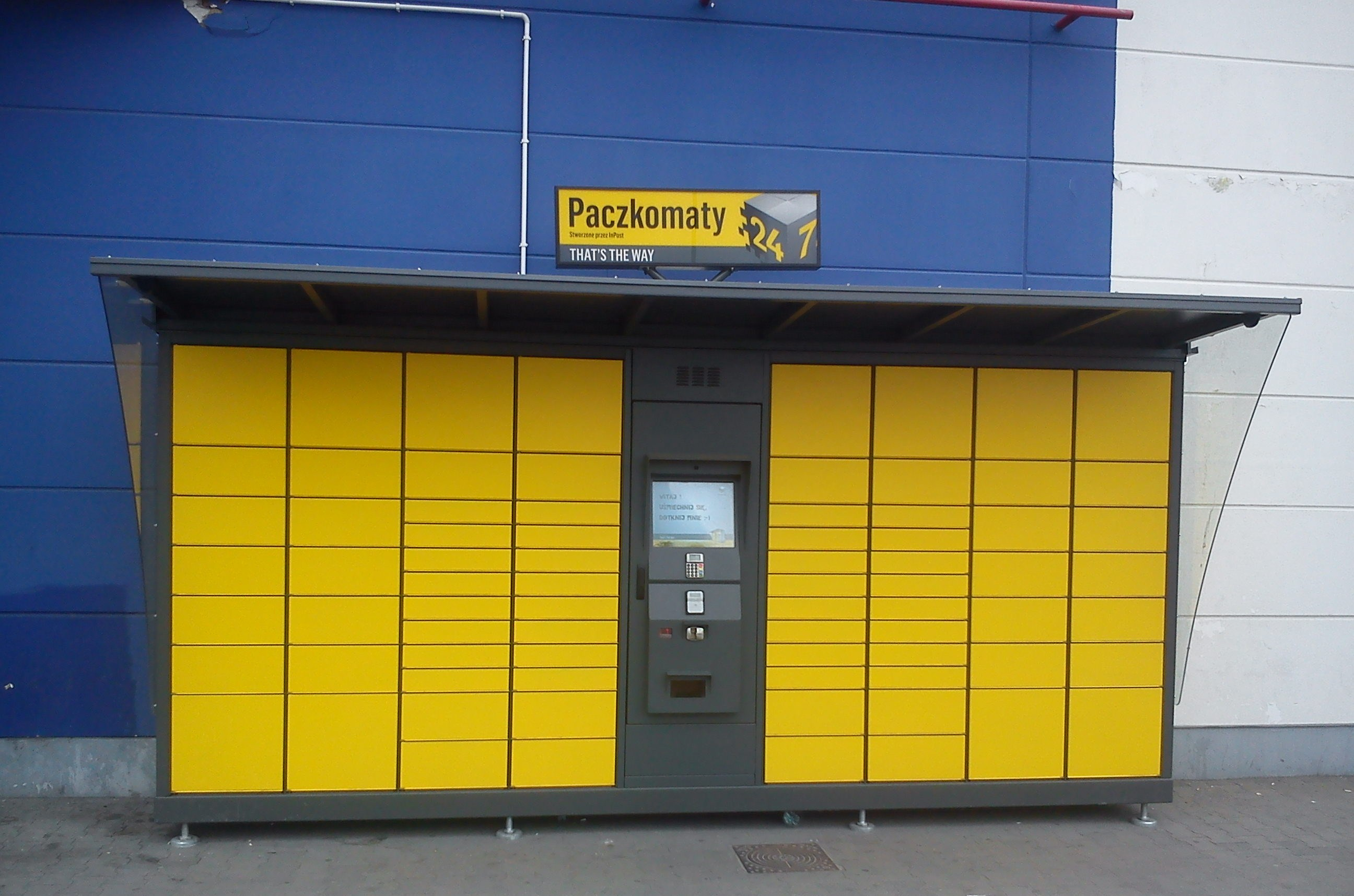 Postal pack (box) automat. Poznań, Tesco Piątkowo.